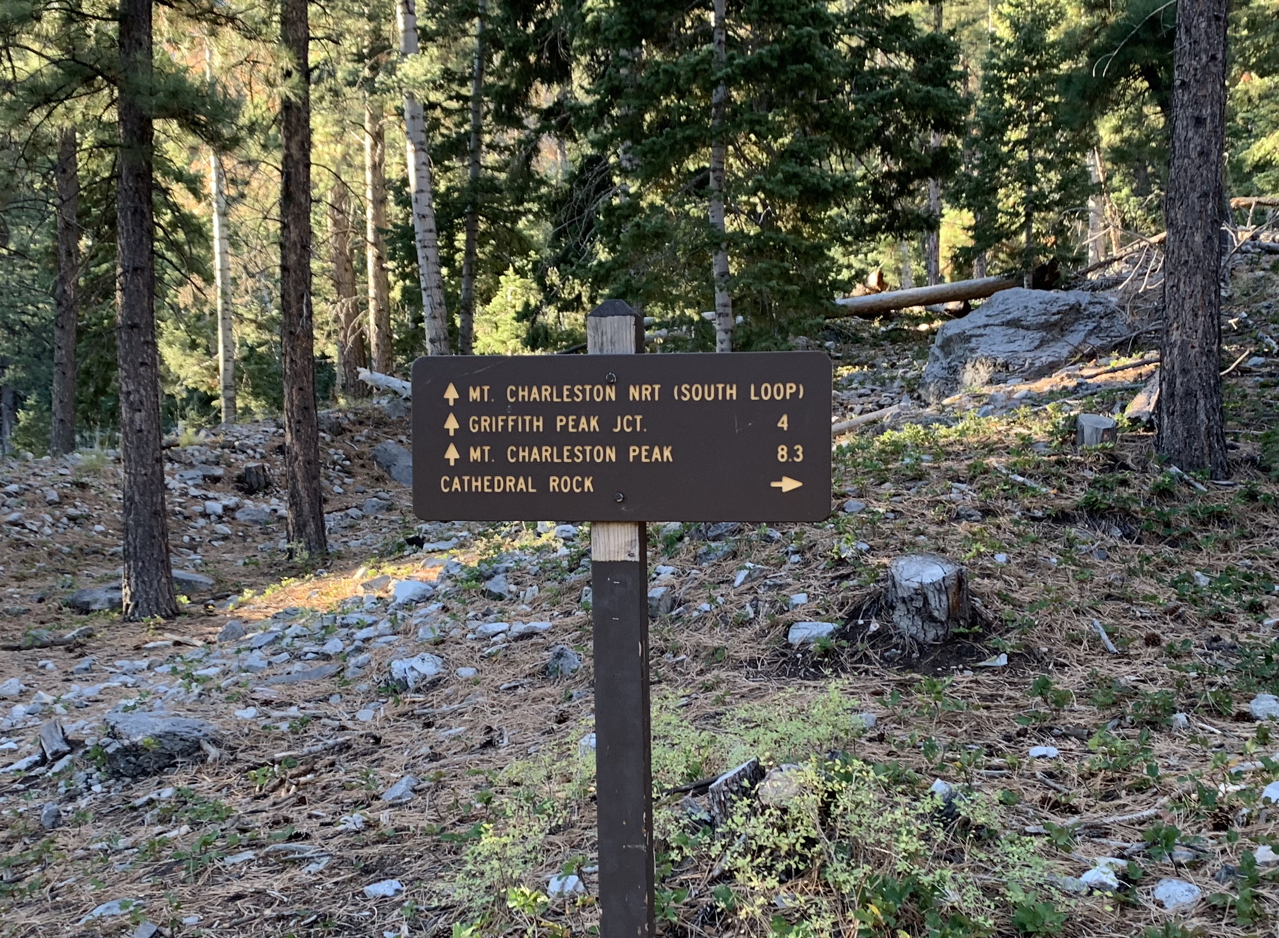 Charleston Peak South Loop Trail Sign as seen in Cathedral Rock Picnic Area. This is the start of the South Loop Trail to Mt Charleston Peak.